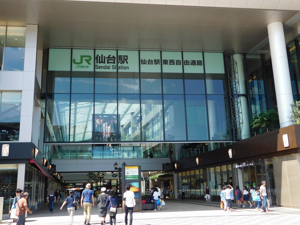 Sendai station east entrance